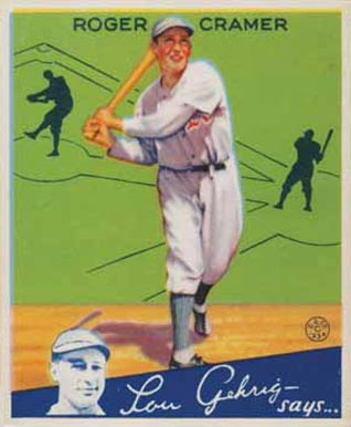 1934 Goudey baseball card of Roger "Doc" Cramer of the Philadelphia Athletics #25. PD-not-renewed